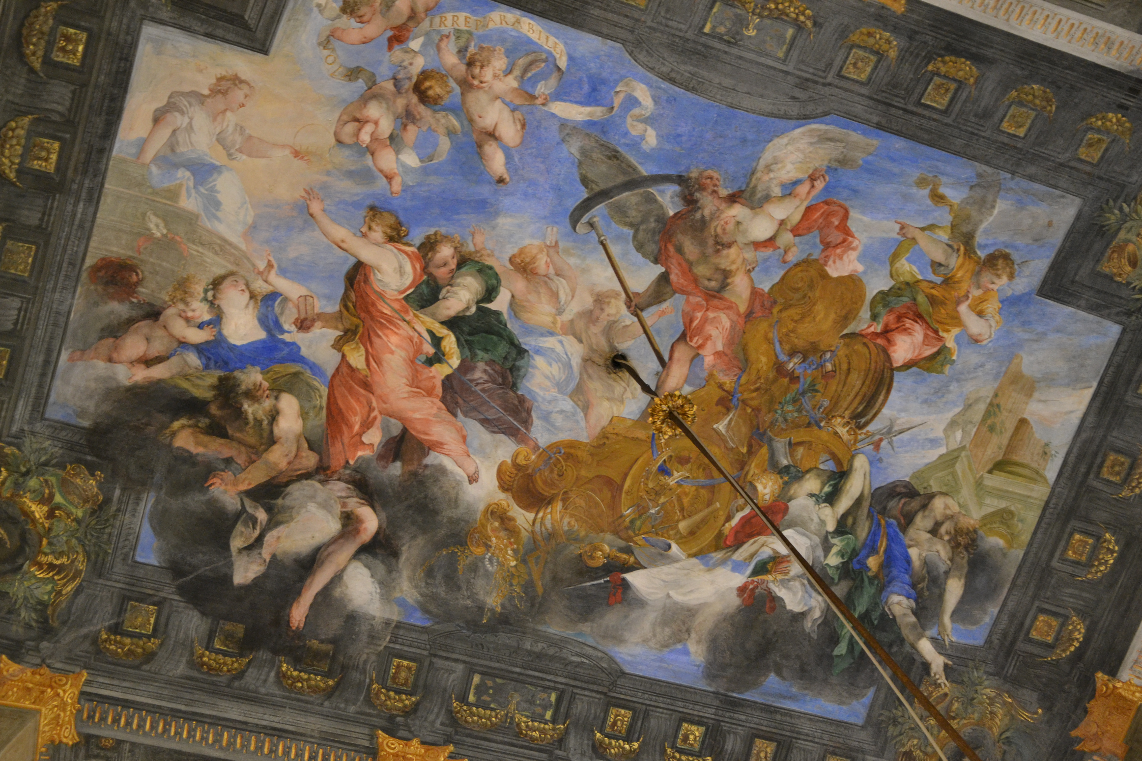 Palazzo Balbi Senarega, University of Genoa, Via Balbi 4 - Valerio Castello frescos (1654-59)